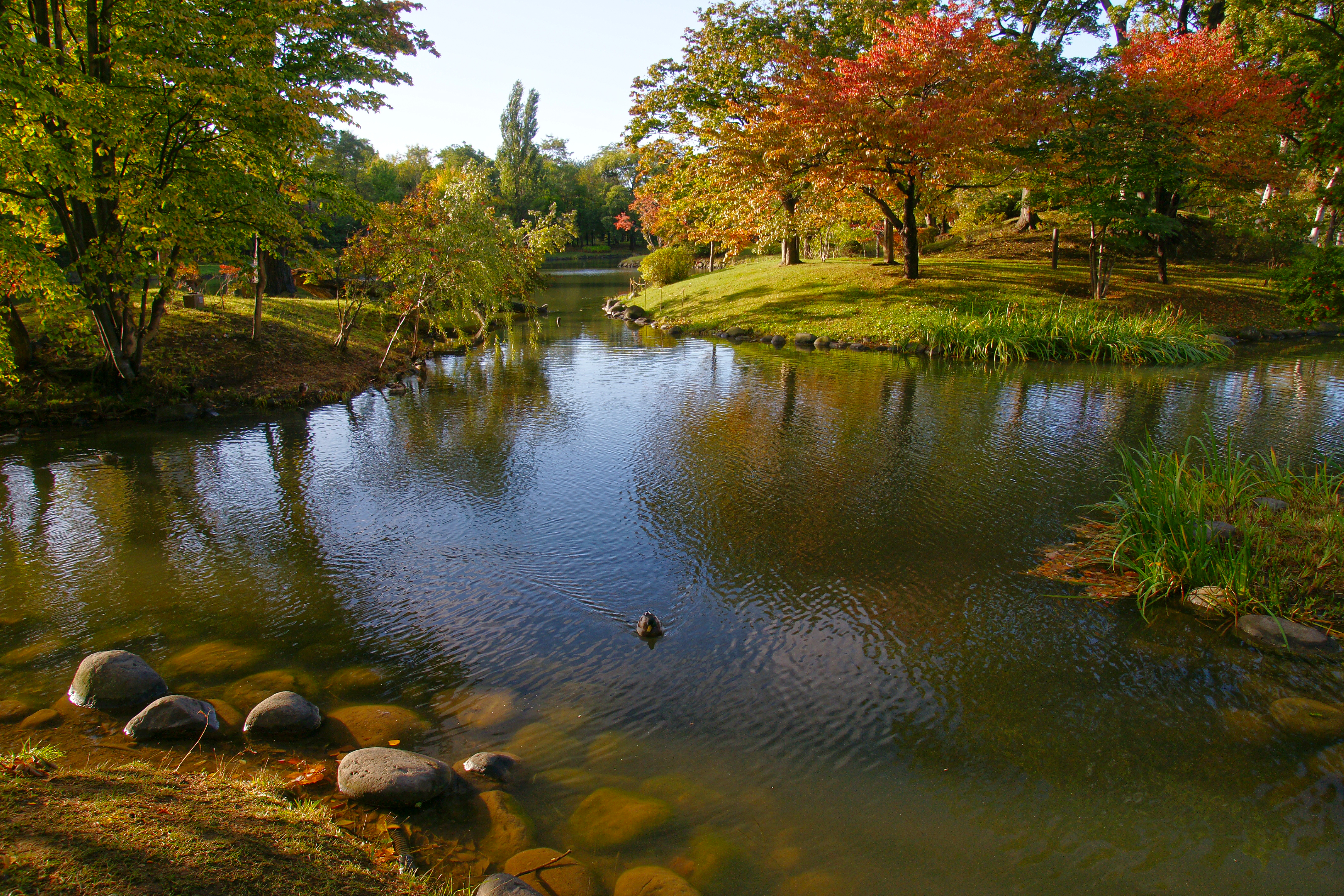 Nakajima Park, Sapporo, Hokkaido prefecture, Japan